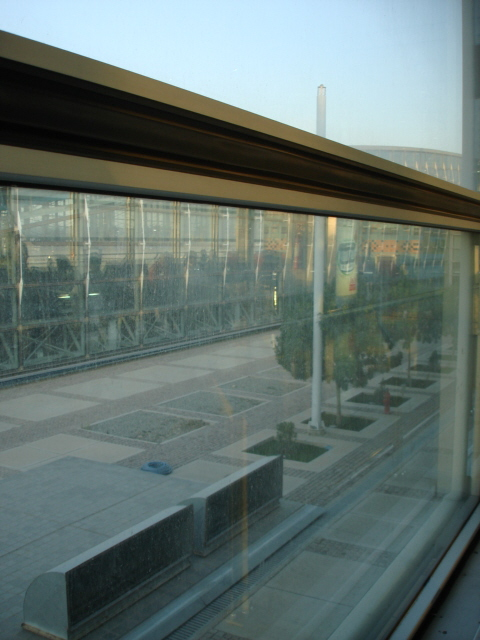 View of Imam Khomeini Airport